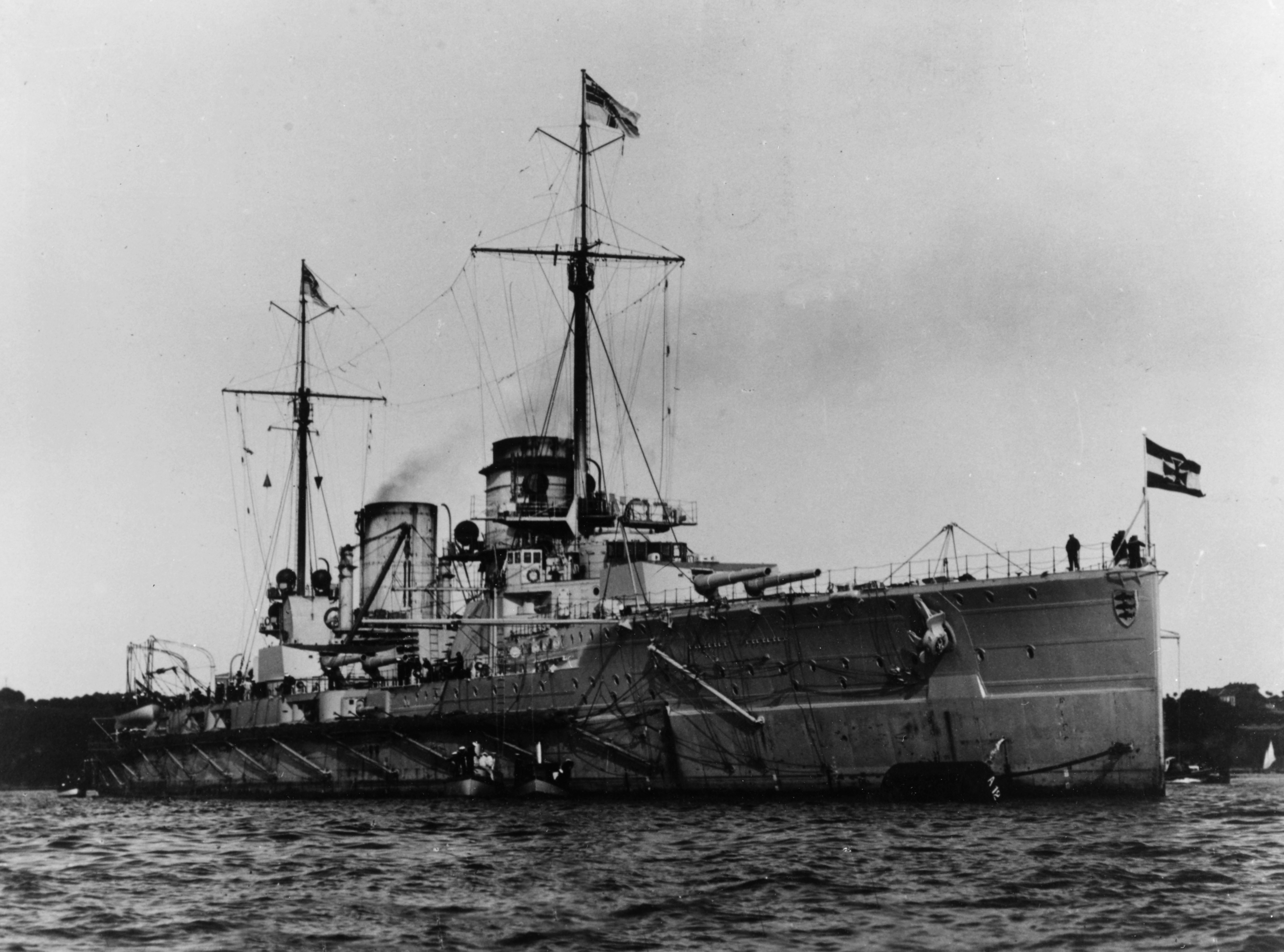 The German battlecruiser SMS Seydlitz photographed prior to World War I, circa 1913-1914, by M.L. Carstens, Hamburg, Germany. The ship's anti-torpedo nets and booms were removed in 1916.